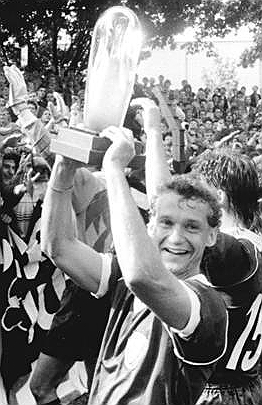 Factual corrections and alternative descriptions are encouraged separately from the original description. Additionally errors can be reported at this page to inform the Bundesarchiv. Original historic description: Heiko Bonan 1989